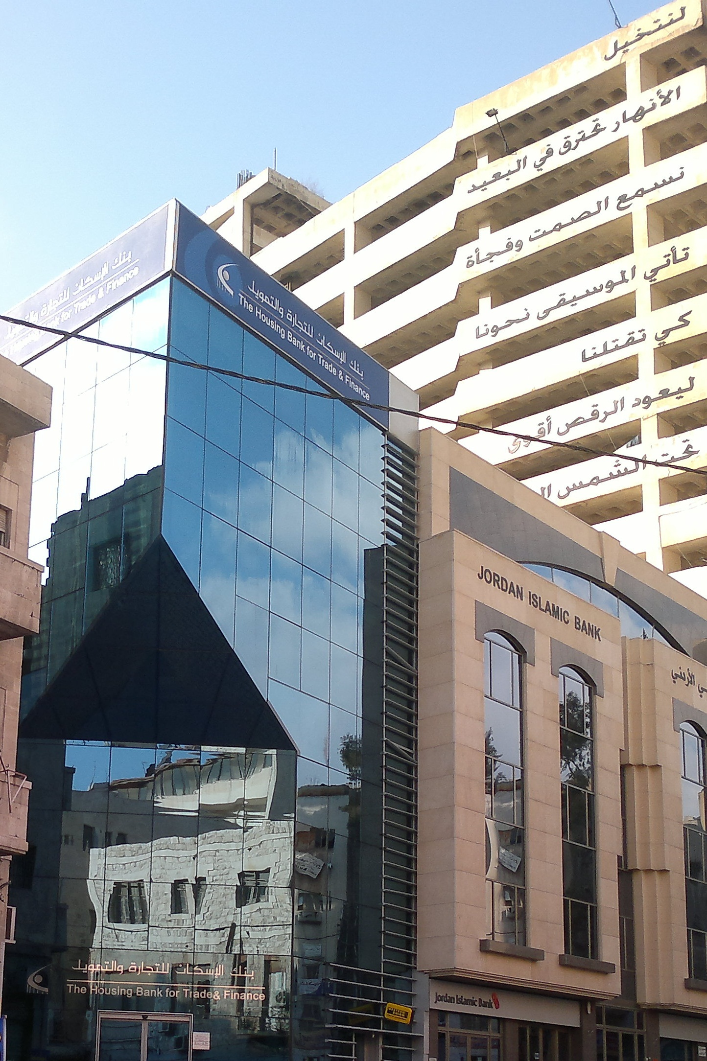 Housing Bank & Islamic Jordanian Bank's Branches at Down Town Amman